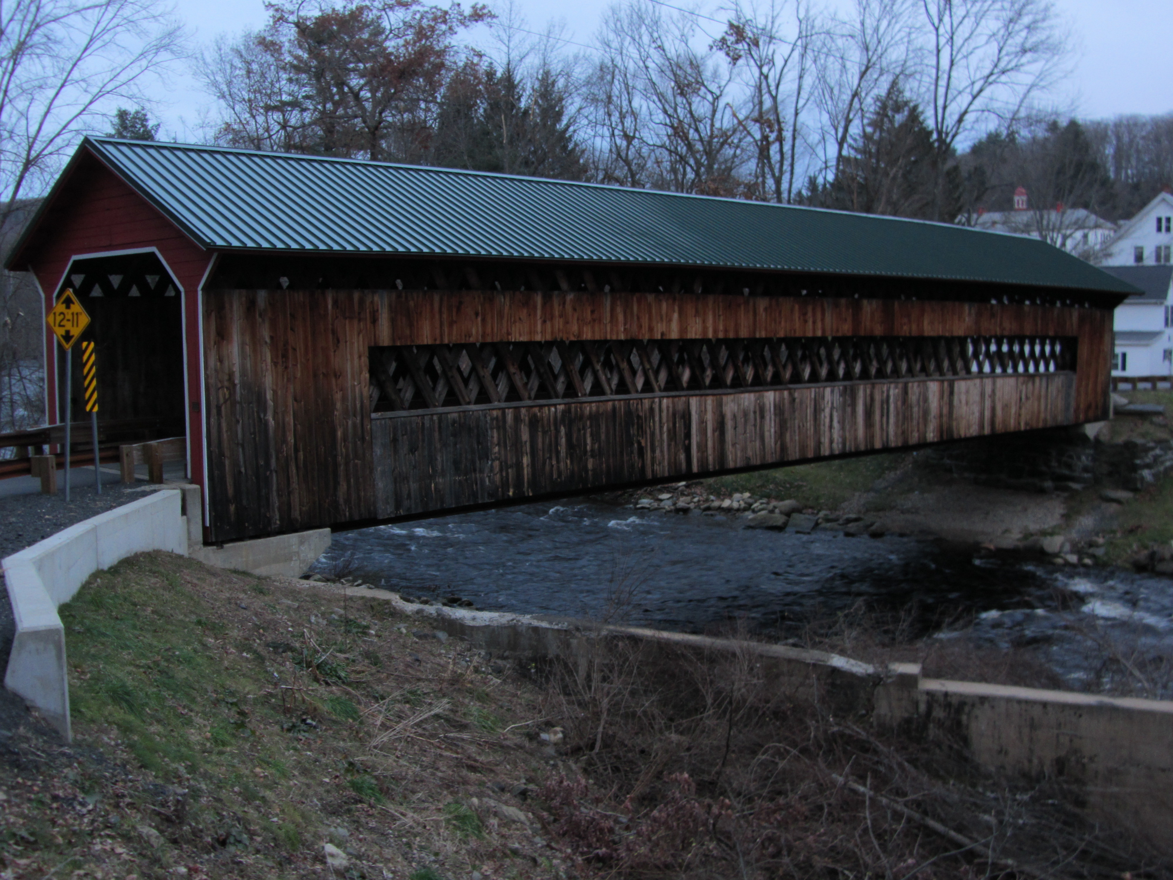 Ware-Hardwick Covered Bridge, oblique view upstream, Hardwick, Worcester Country, Massachusetts, USA